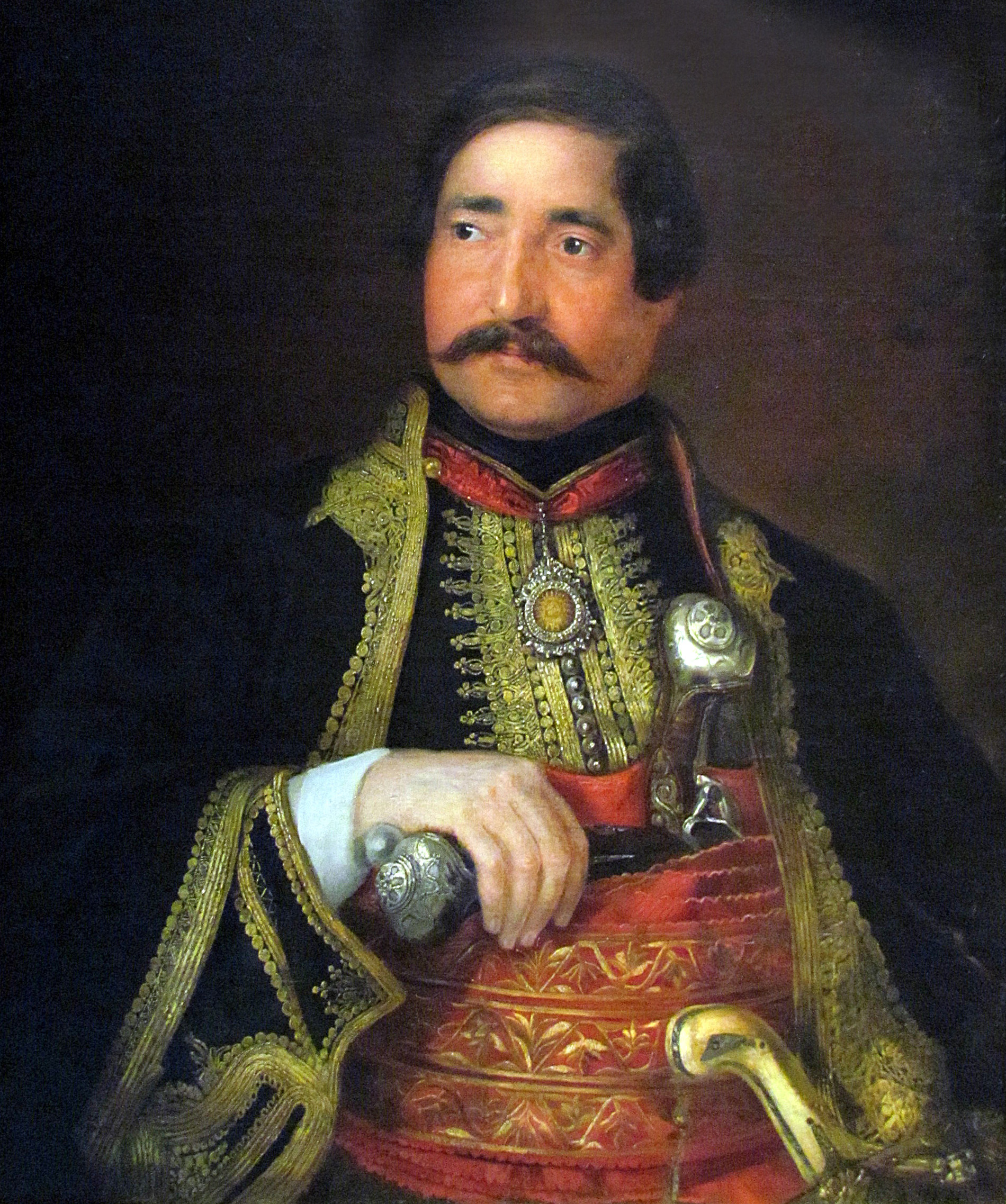 Katarina Ivanovic, Stevan Knicanin, 1847